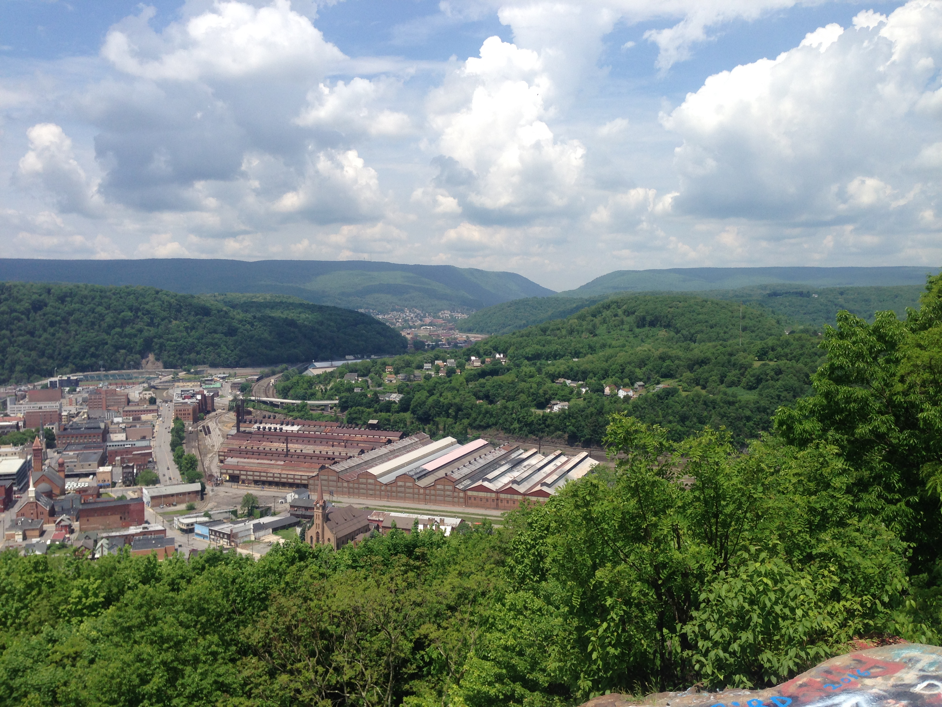 A view of the northern end of Laurel Ridge and the Conemaugh River gap in the distance, with the city of Johnstown in the foreground